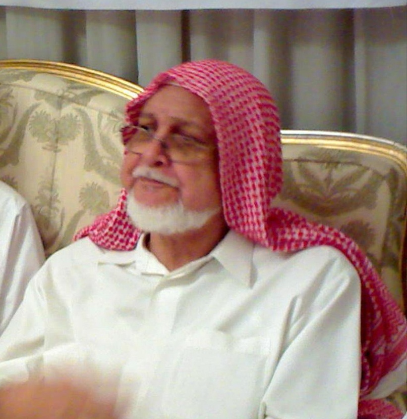 Mohammad Alrashid